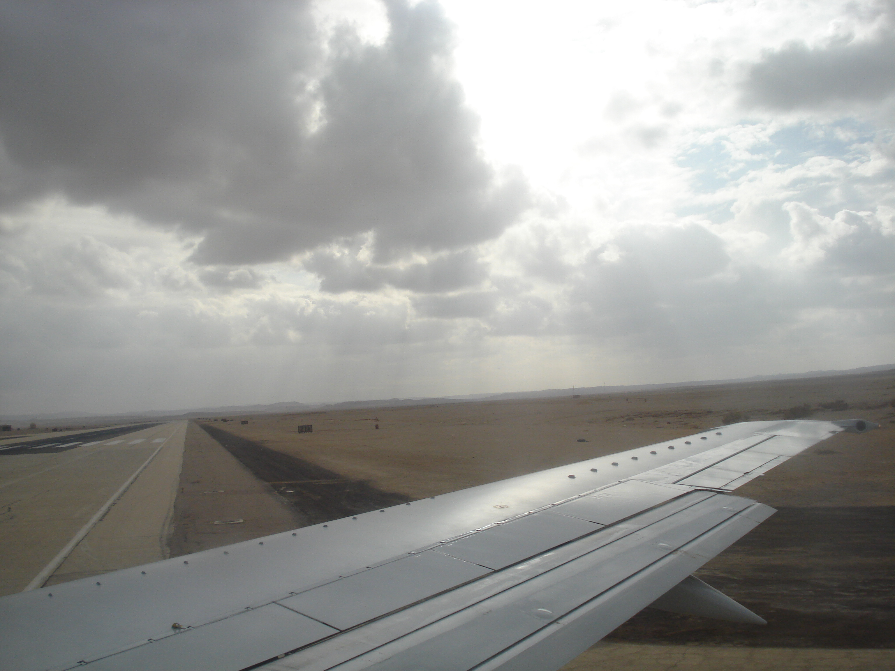 December 2009, Ovda Airport